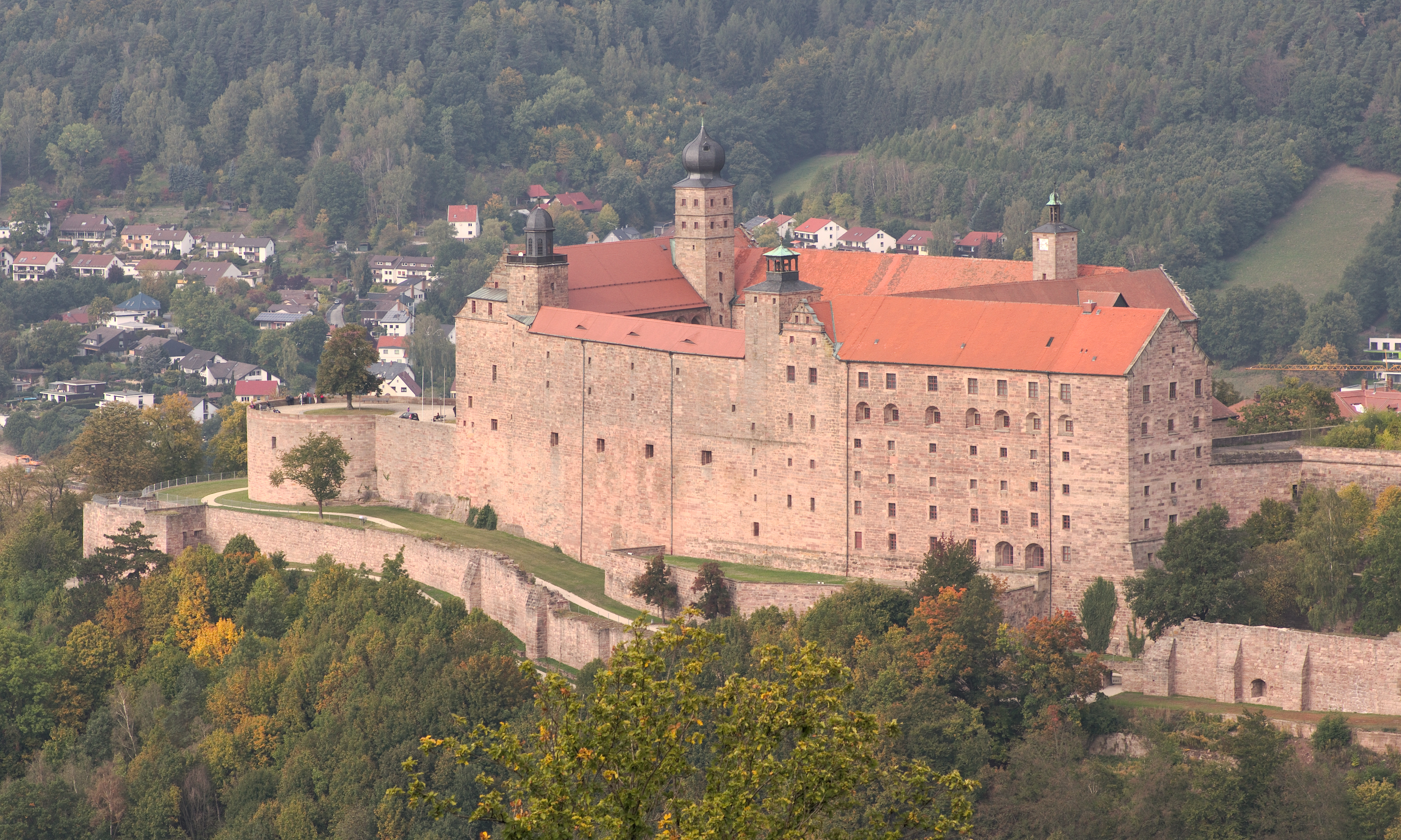 The Plassenburg in Kulmbach, Germany, south-eastern view as seen from the Rehturm.